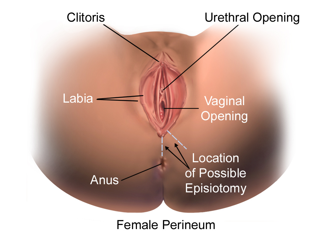 Location of Possible Episiotomy. See a full animation of this medical topic.